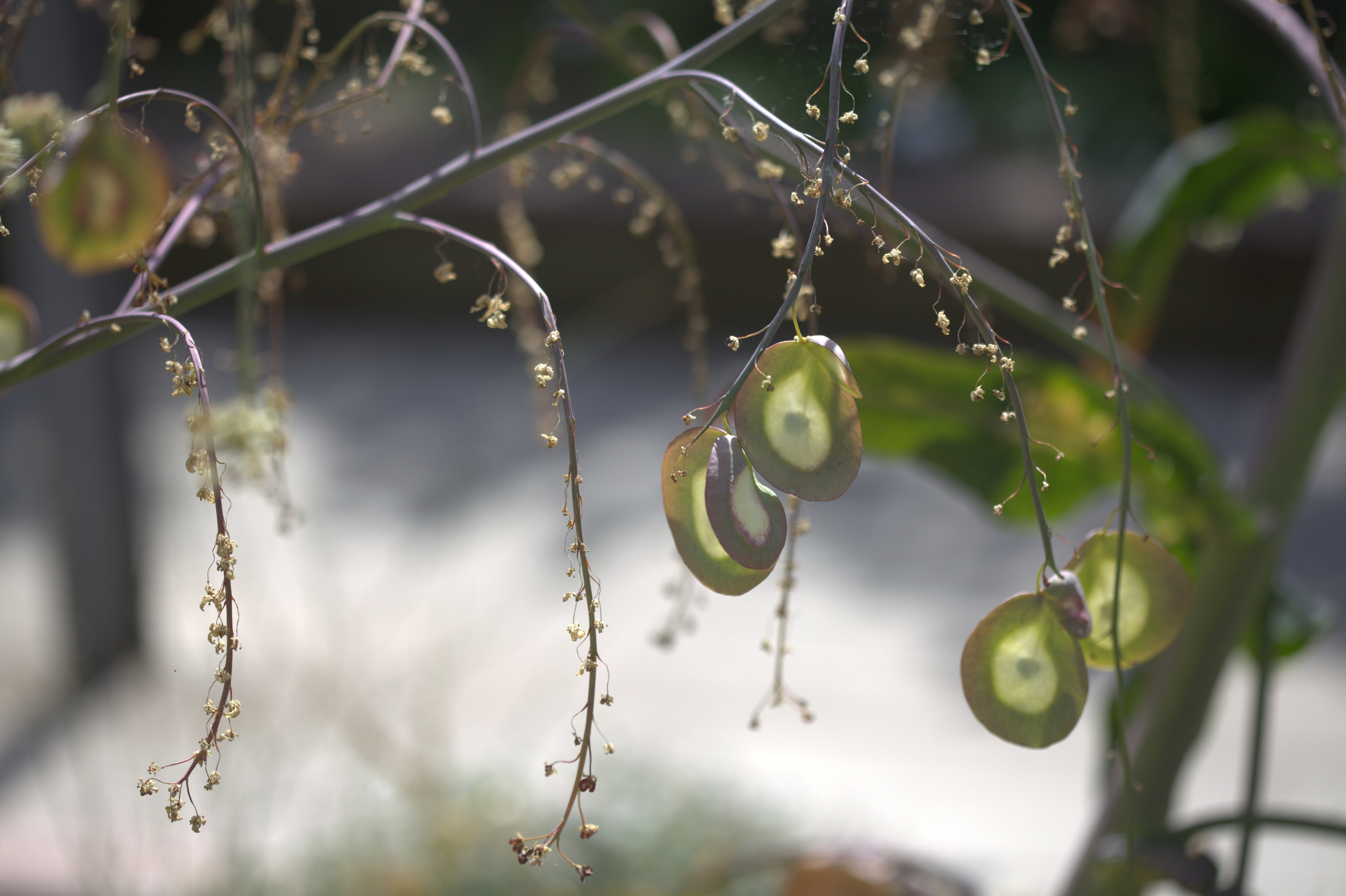 Photo taken at Gothenburg botanical garden. Specimen id: 1987-0349 p W Plant collected in 1987 from the wild (Böhme).